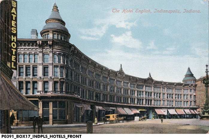 1909 postcard depicting the English Hotel and Opera House in Indianapolis, Indiana.